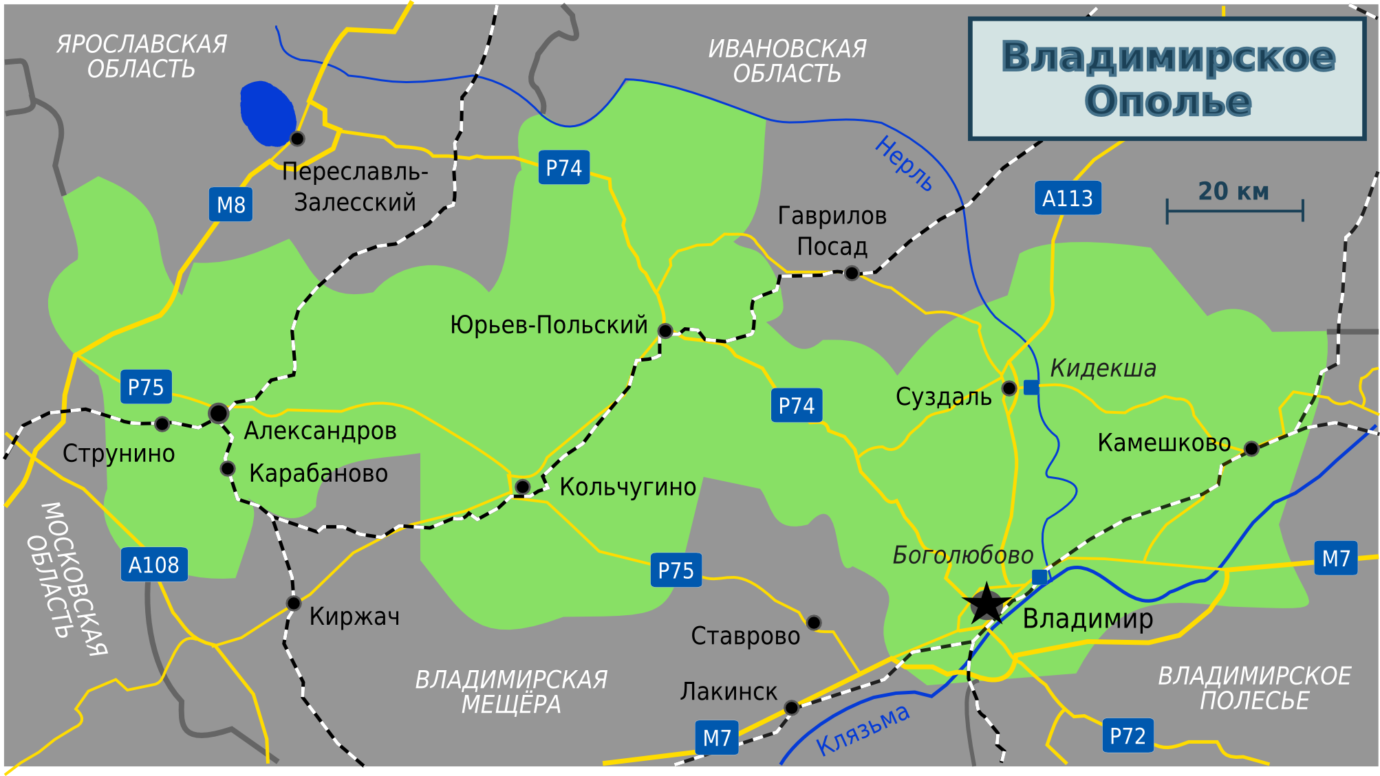 Map of Vladimir Grasslands, ru. SVG version :Image:Vladimir_Grasslands_map.svg, Vladimir Oblast Map of: Vladimir Oblast¤